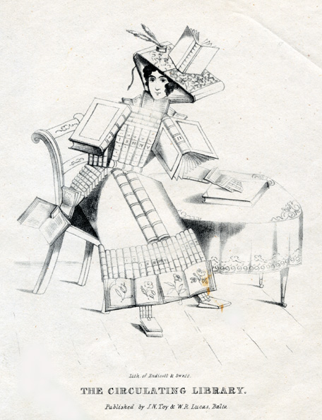 Endicott & Swett, The Circulating Library (Baltimore: Published by J.N. Toy & W.R. Lucas, 1831). Lithograph.